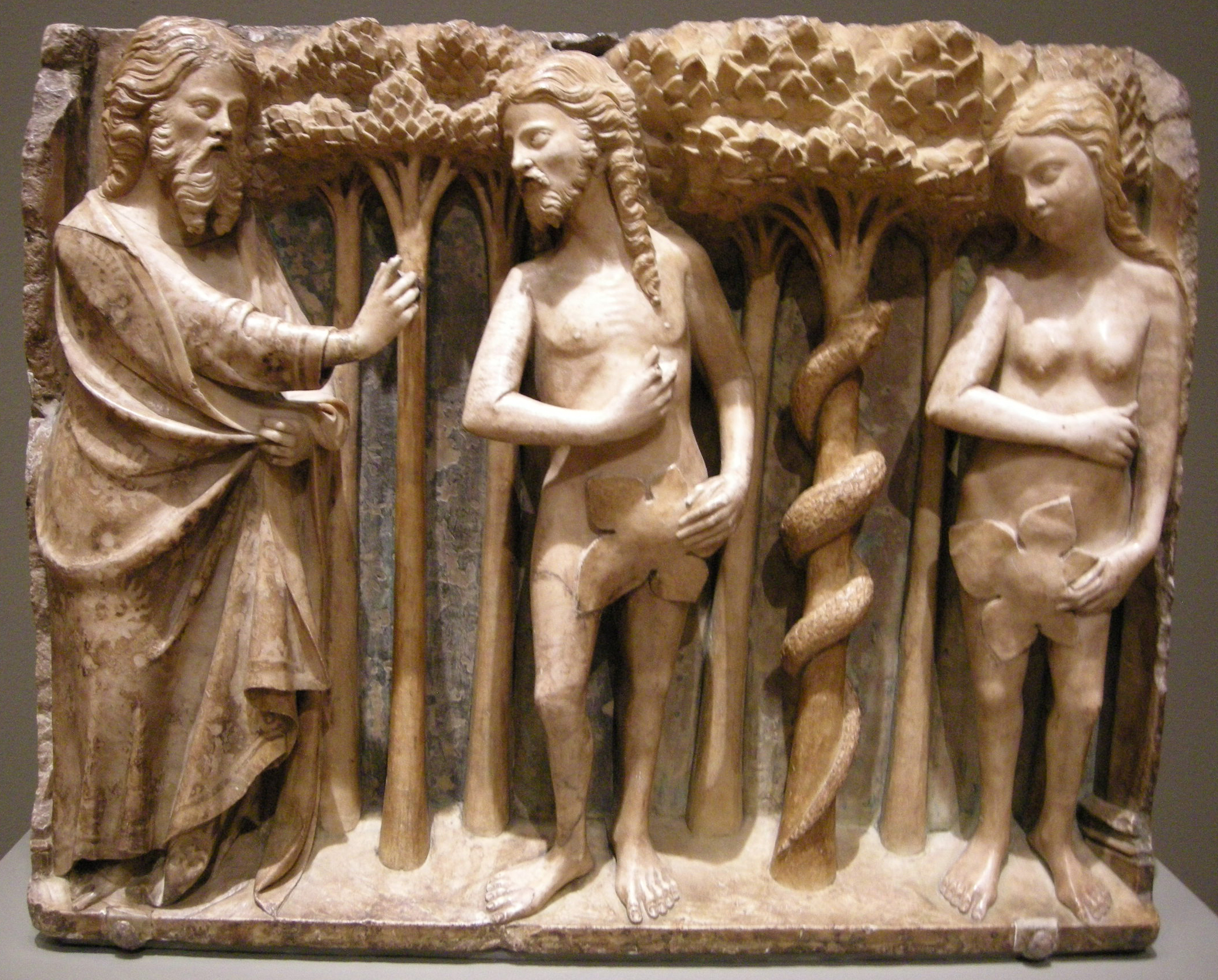 Relief of Adam and Eve, by Bartolomeo Rubio. At the California Palace of the Legion of Honor, in San Francisco.